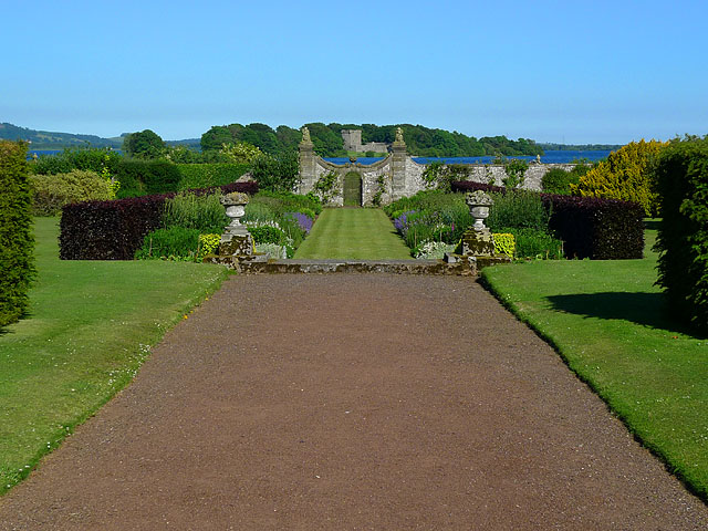 Gardens at Kinross House